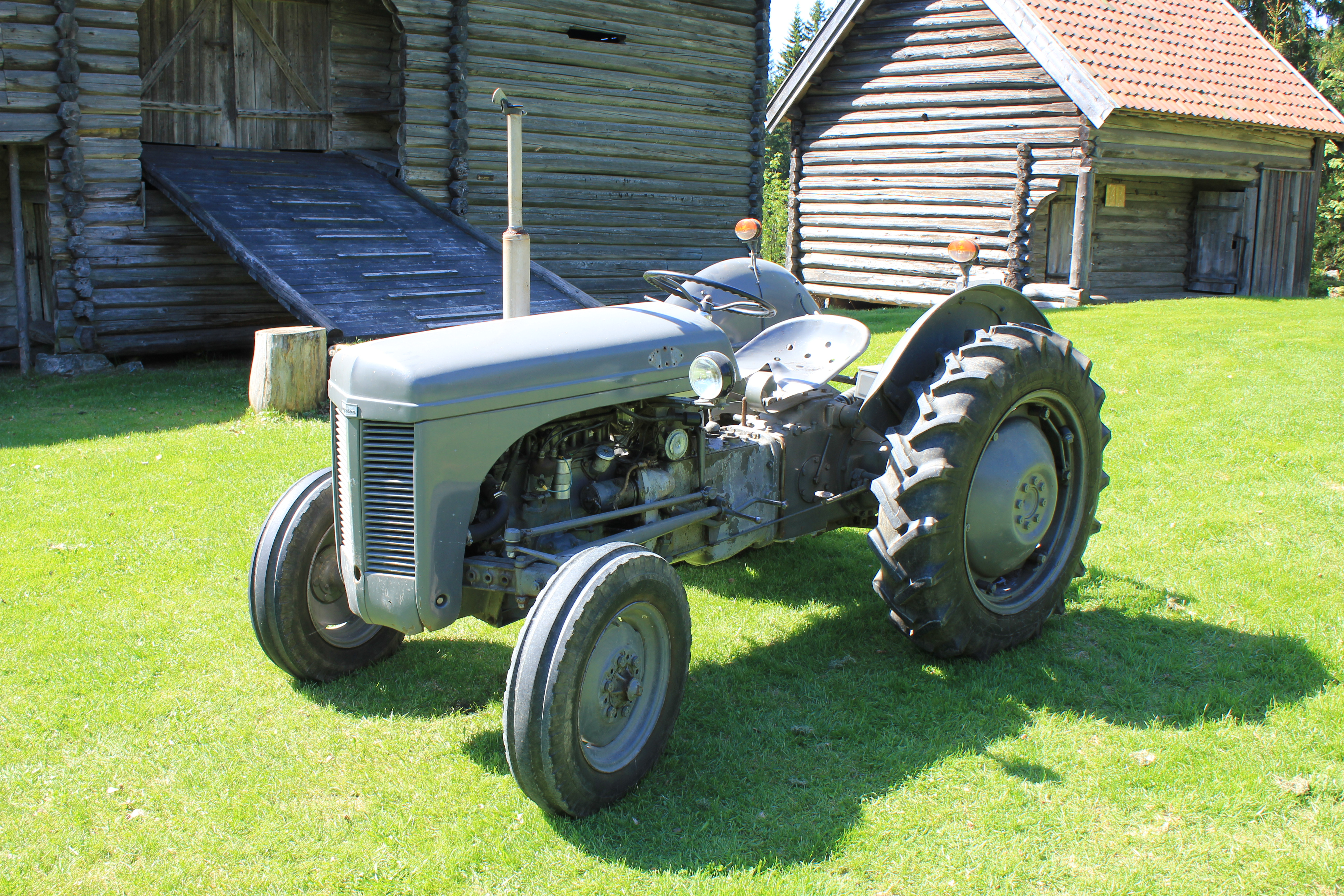 Old grey Massey Ferguson tractor, Norway.